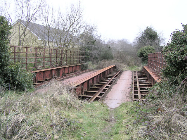 Railway Bridge, St Johnston. The former double track of the Great Northern Railway (Ireland) section seen here. All that remains of the railway track and bridge..